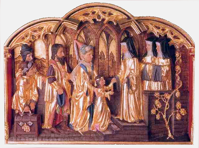 The eight-year-old Hildegard von Bingen (center) is brought to Jutta von Sponheim (center right), abbess of the community of nuns at the Disibodenberg monastery. (Partial excerpt of the Hildegard Altar of the Chapel of St. Roch, Bingen am Rhein, Germany.)